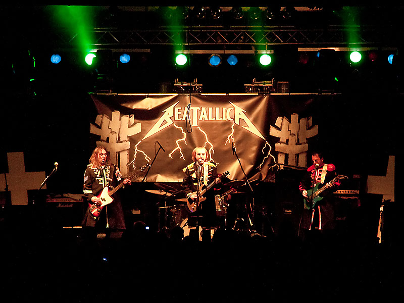 Beatallica life in Leipzig